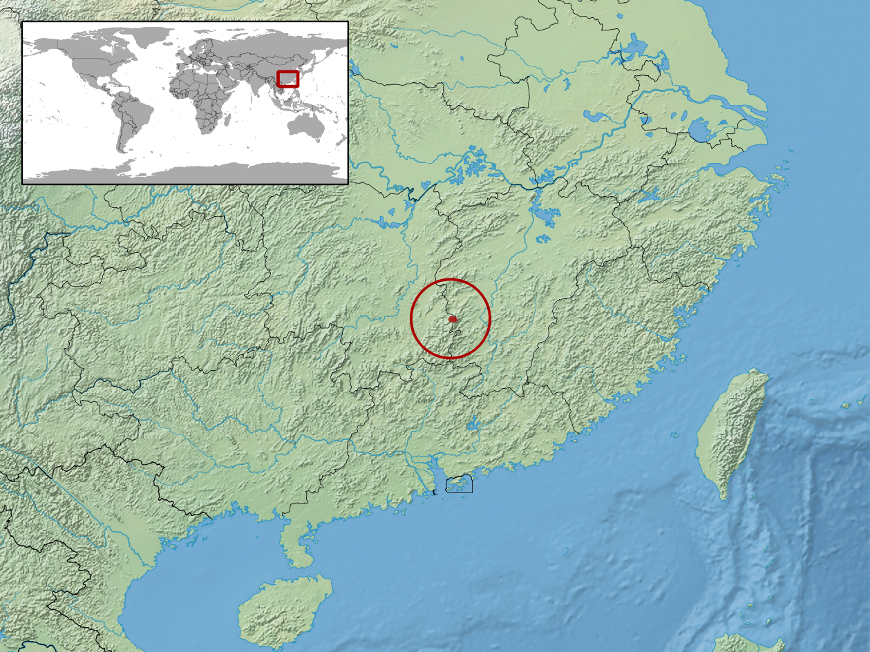 geographic distribution of Achalinus jinggangensis (Native: China (Jiangxi))